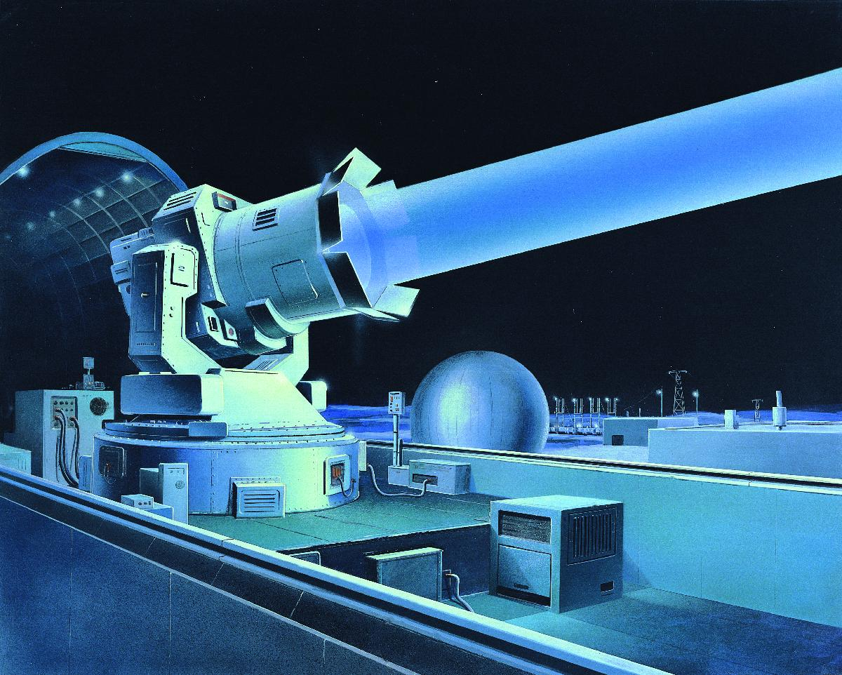 SOVIET GROUND-BASED LASER The Soviet Strategic Defense Program involved extensive research on advanced technologies in the 1980s. The USSR already had ground-based lasers, conceptually illustrated here, capable of interfering with some US satellites.